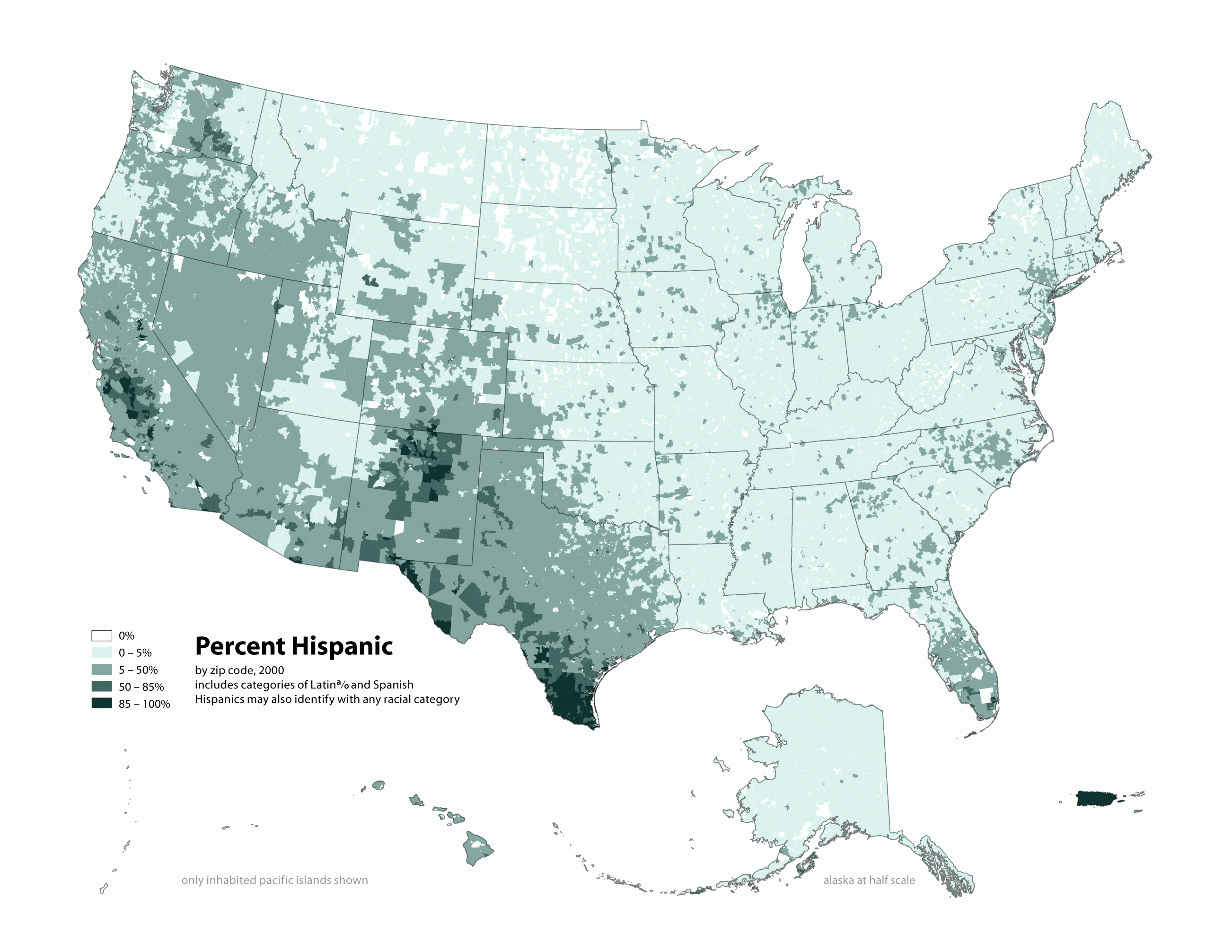 Map of contiguous US, showing percentage of population self-reporting as "Hispanic," by census tract, 2000. Data source: US Census.